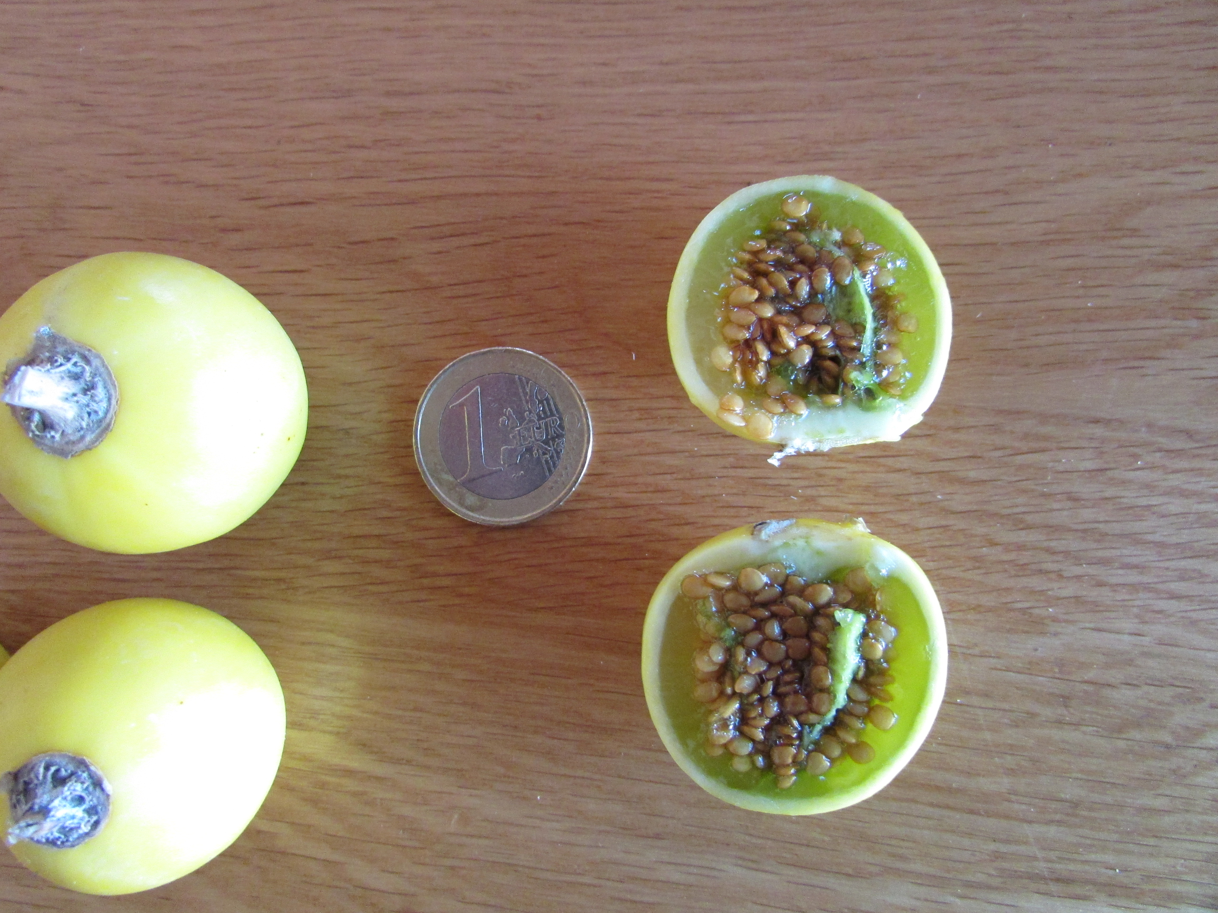 An example of the Black spine nightshade (Solanum linnaeanum) which is also known as devil's apple. This bush was located in the neighbourhood of of Cerro Grande within the city of Albufeira, Algarve, Portugal.